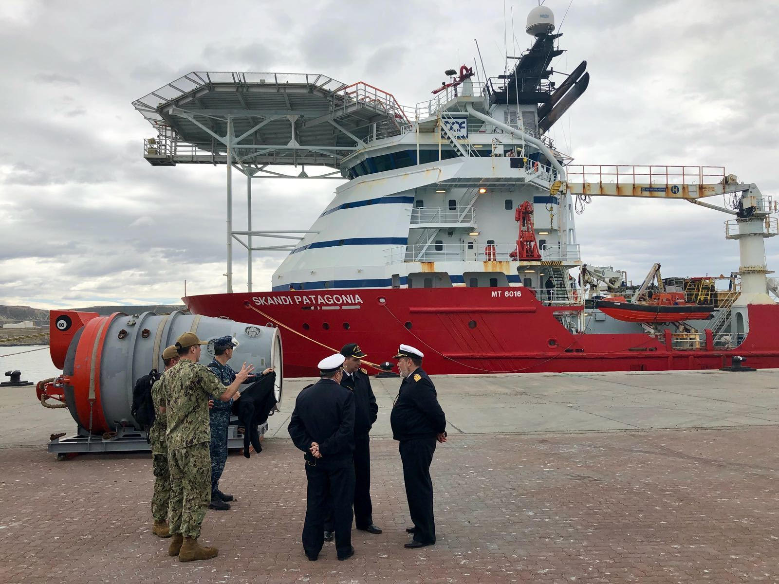 COMODORO RIVADAVIA, Argentina (Nov. 20, 2017) Argentine rescue commanders discuss current operations with U.S. Navy Cmdr. Michael Eberlein, commanding officer of Undersea Rescue Command (URC). URC is based in San Diego and is mobilizing two rescue assets to assist in search and rescue efforts for the Argentine navy submarine ARA San Juan (S-42). (U.S. Navy photo/Released)171120-N-UX999-005 Join the conversation: navylive.dodlive.mil